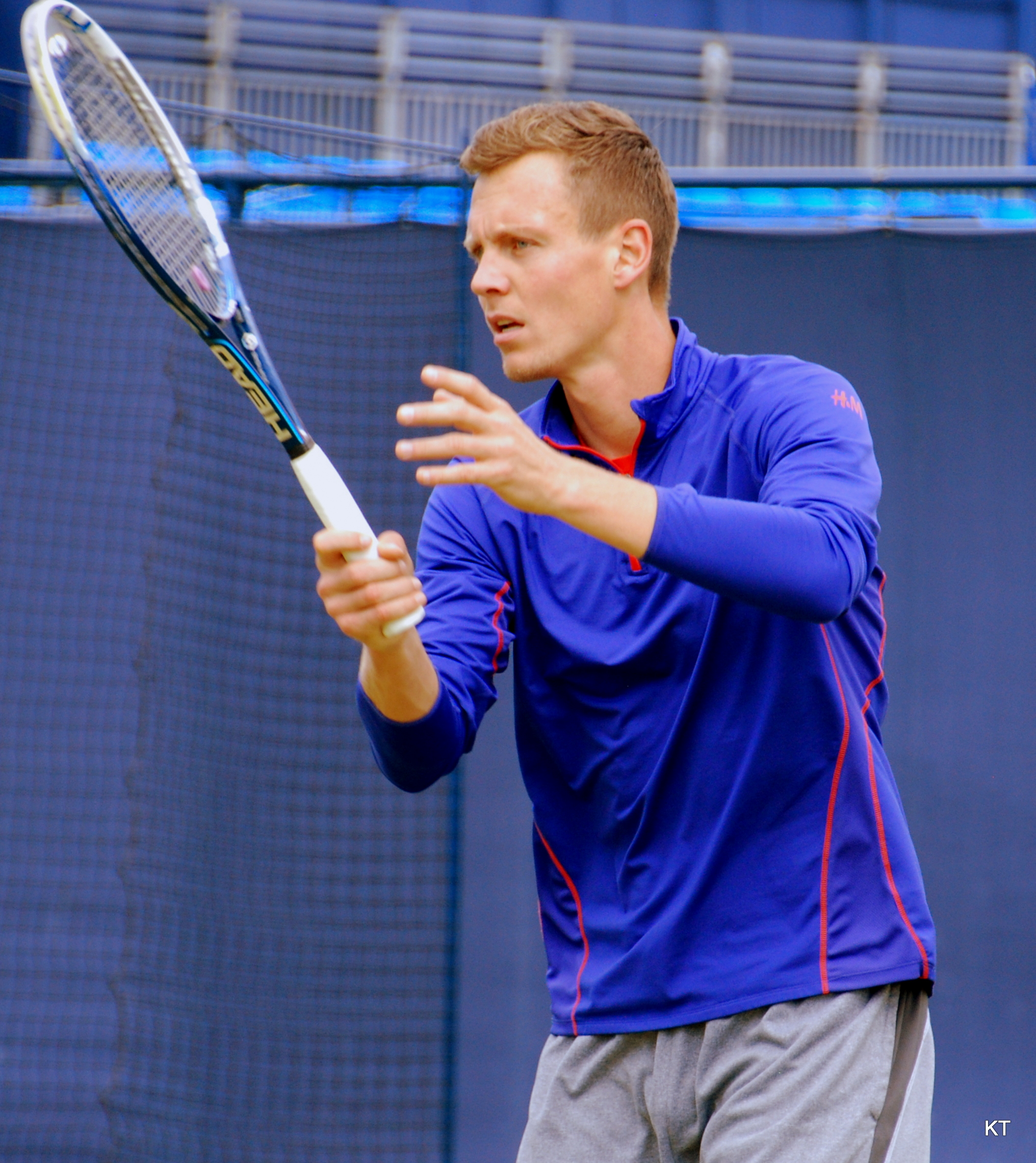 Practicing at Queens.